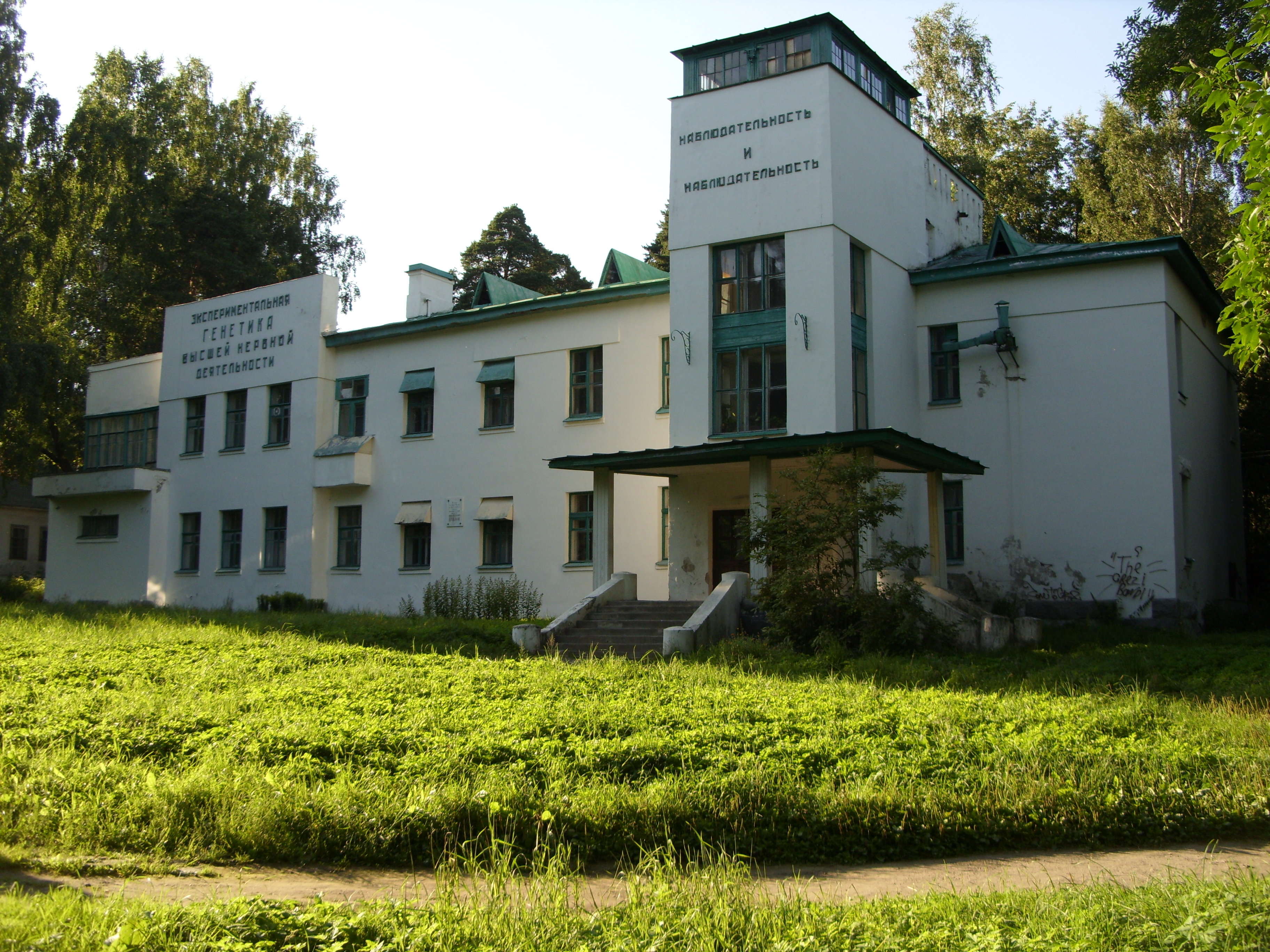 Koltushi Laboratorija